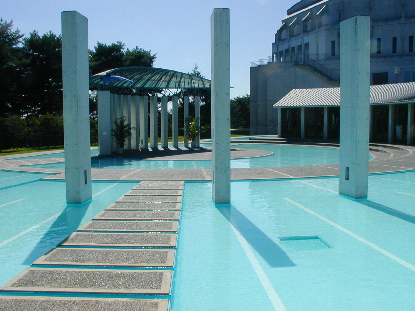 Amphitheatre of Shichigahama Kokusai-mura